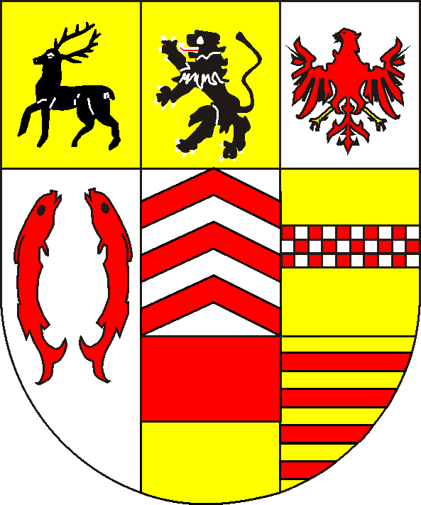 coats of arms of the count of Stolberg (1548); 1: county of Stolberg; 2: lordship of Büdingen; 3: county of Rochefort; 4: lorship of Eppstein; 5: county of Mark; 6: county of Wernigerode; 7: lordship of Münzenberg; 8: county of Loon